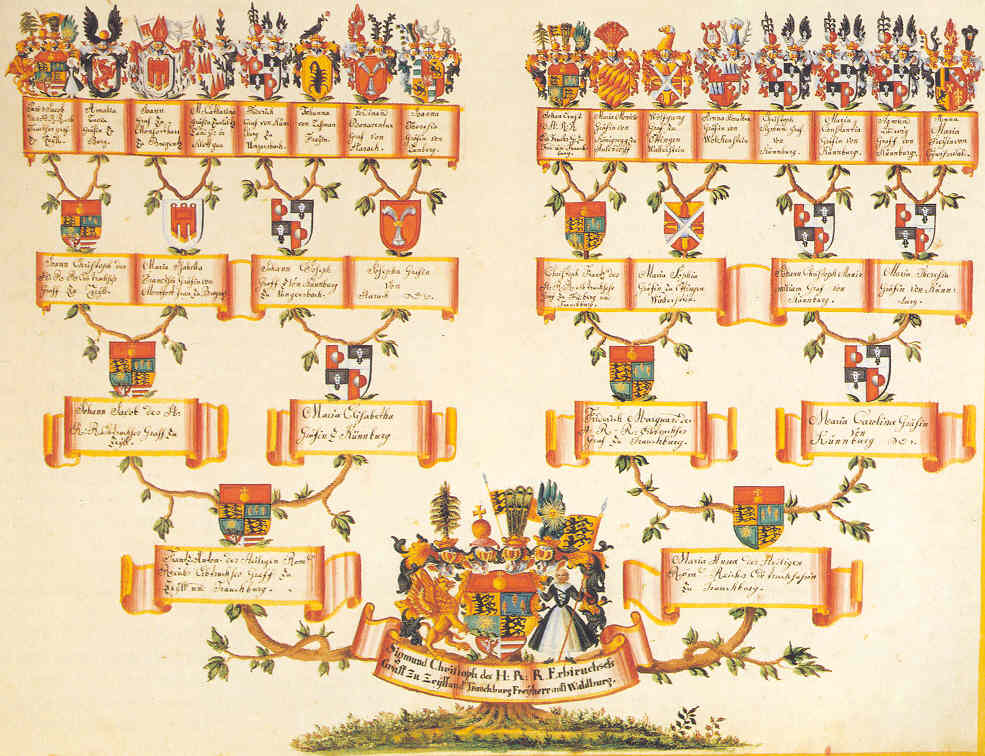 The family tree of Sigmund Christoph von Waldburg-Zeil-Trauchburg